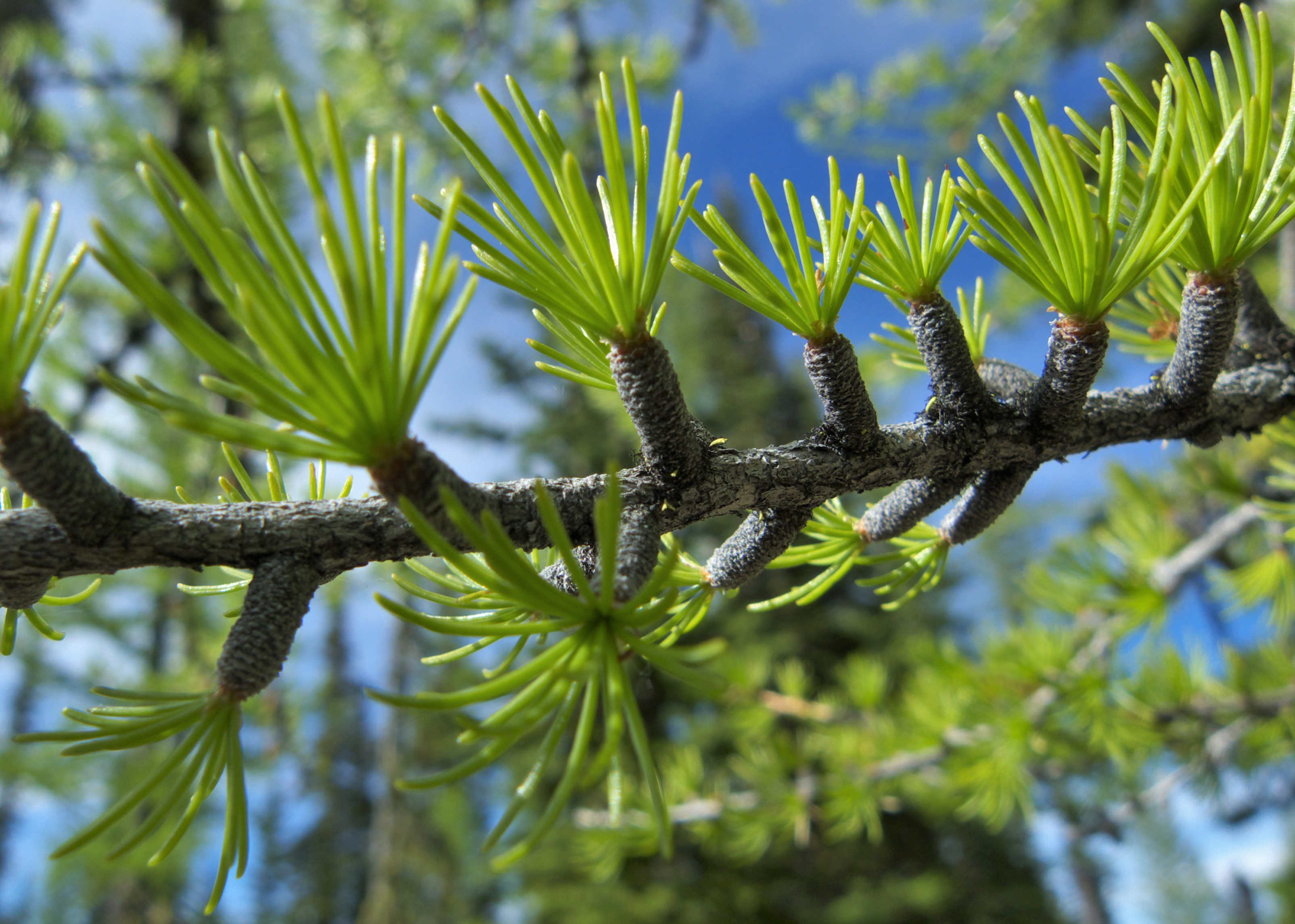 Larix occidentalis near Mission Ridge, Chelan County Washington